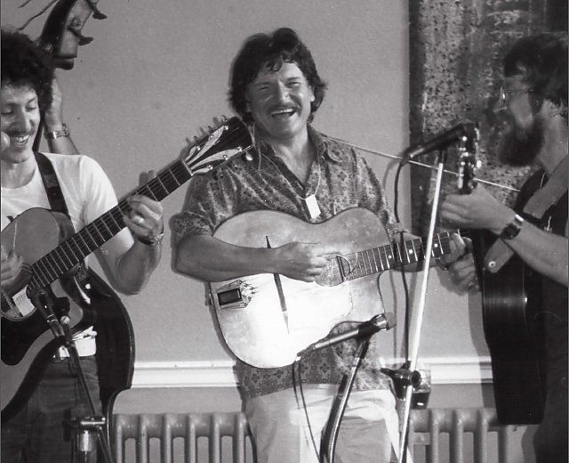 Diz Disley (with Stan Gordon, L, and George Norris, R) at the 1981 Essex Festival, UK (photograph by Tony Rees)